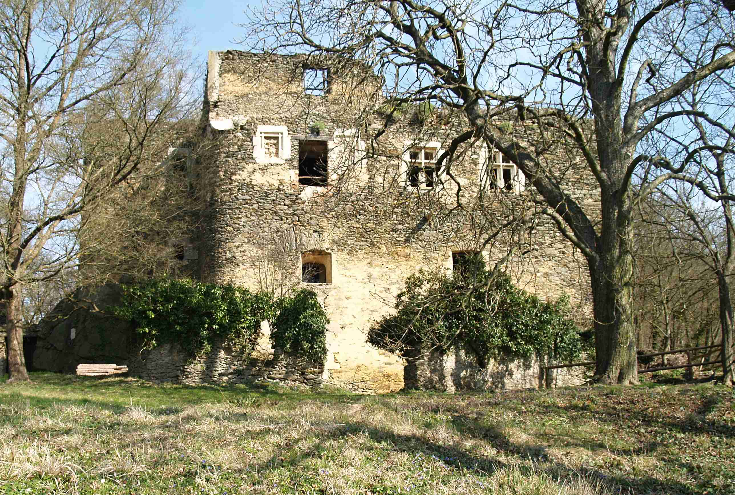 The younger part of Nový Hrádek Castle.